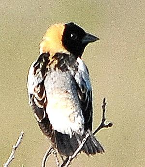 Bobolink